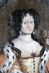 Portrait of Anna Sophia von der Pfalz (1619-1680)